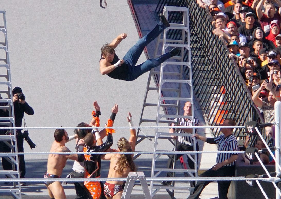 Dean Ambrose leaping from the top of a ladder at WrestleMania 31